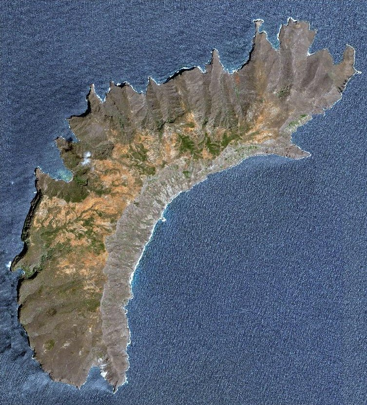 Eiao Island, viewed from space. Marquesas islands, French Polynesia.